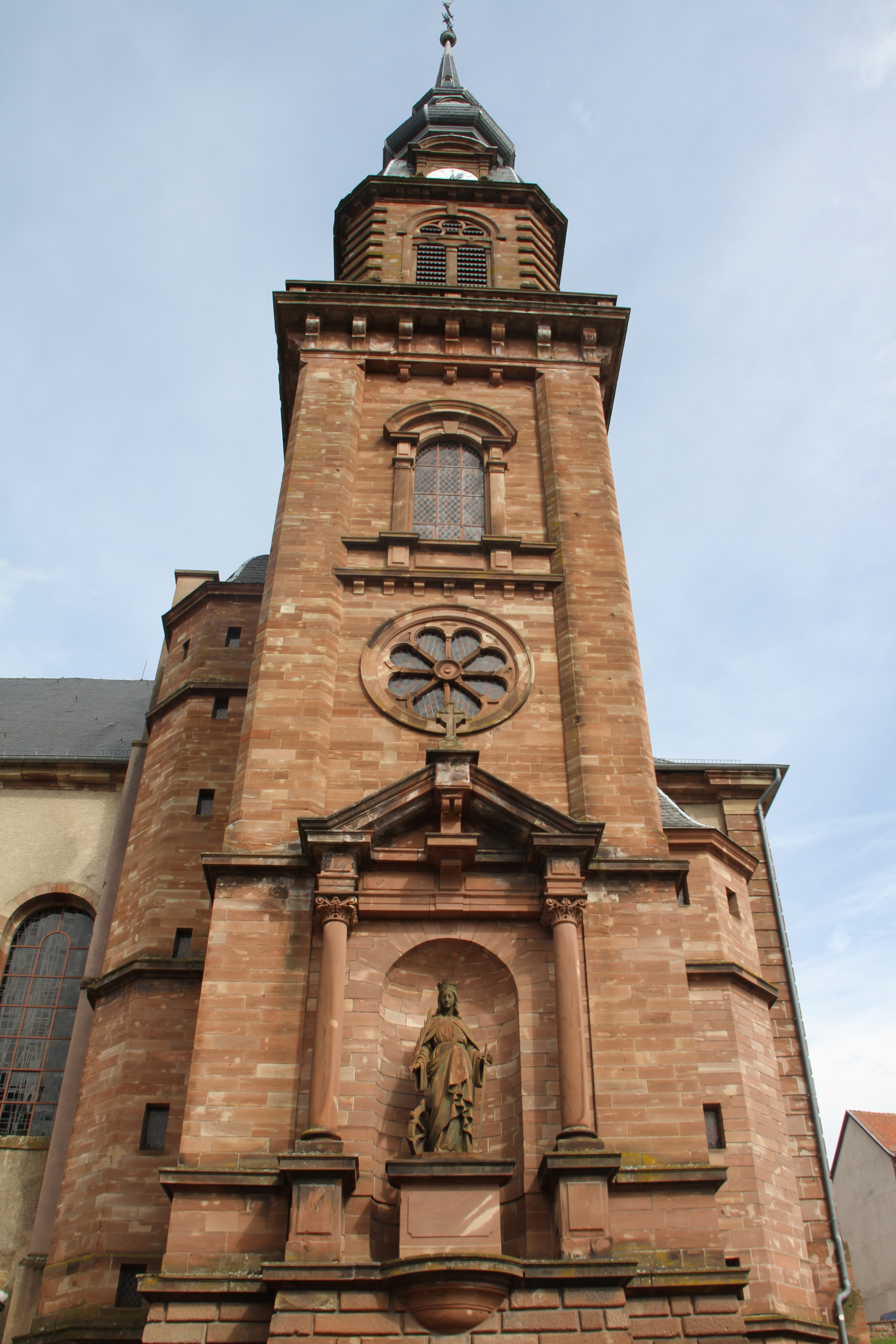 Church of Saint Catherine in Bitche